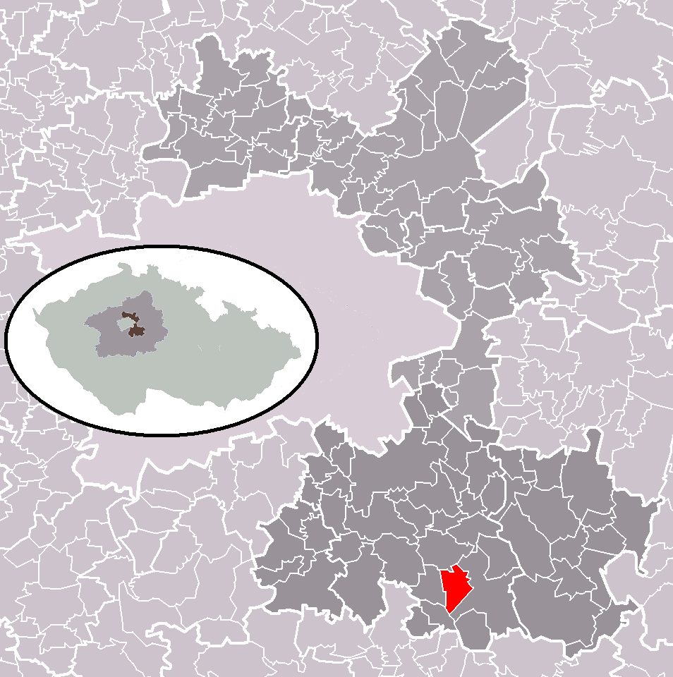 Location of Hrusice municipality within Prague-East District and administrative area of Říčany as a Municipality with Extended Competence.